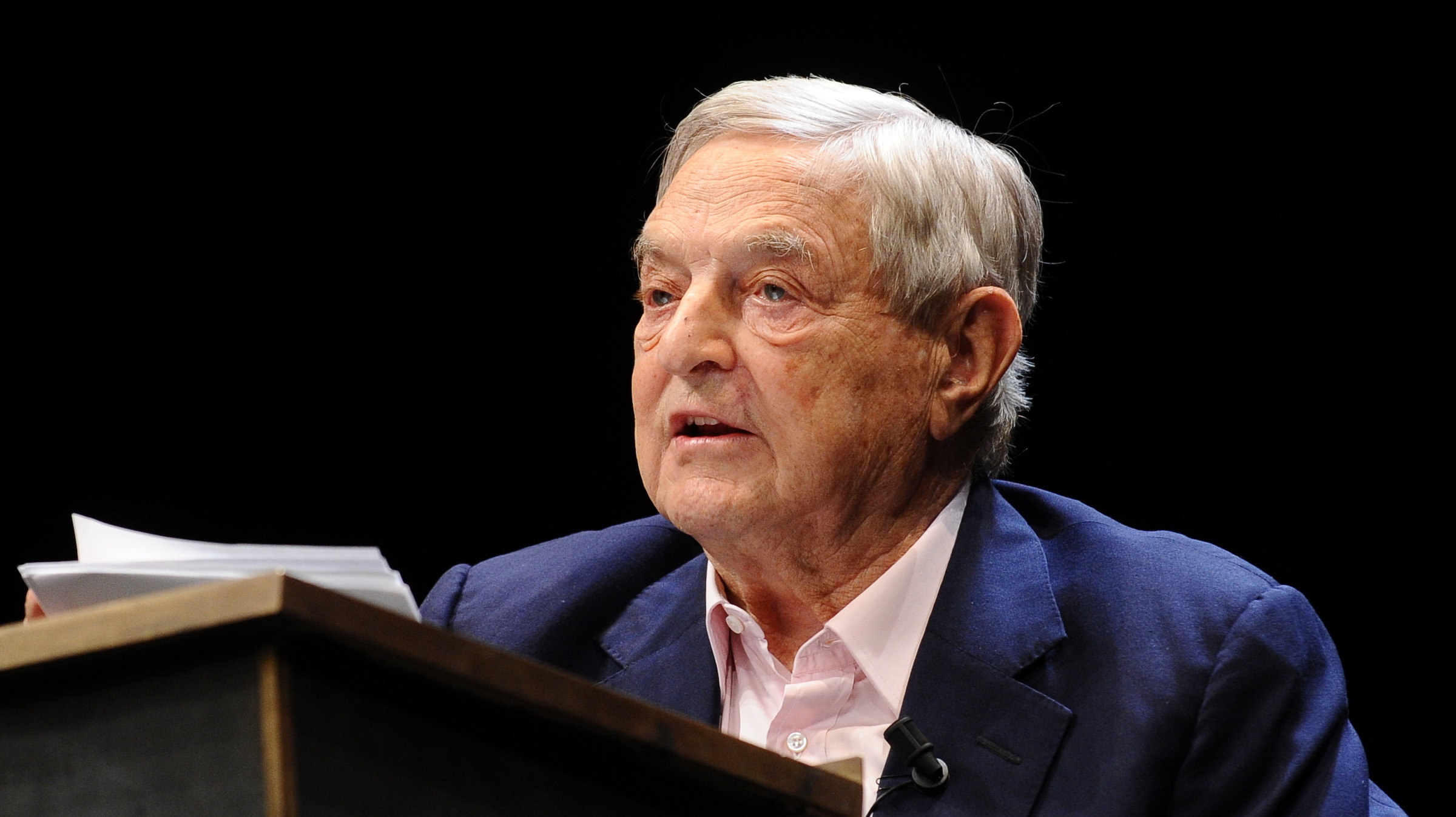 George Soros - Festival of Economics 2012 - Trento